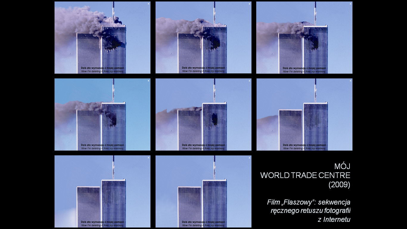 A work created by Anna Kutera in 2009.